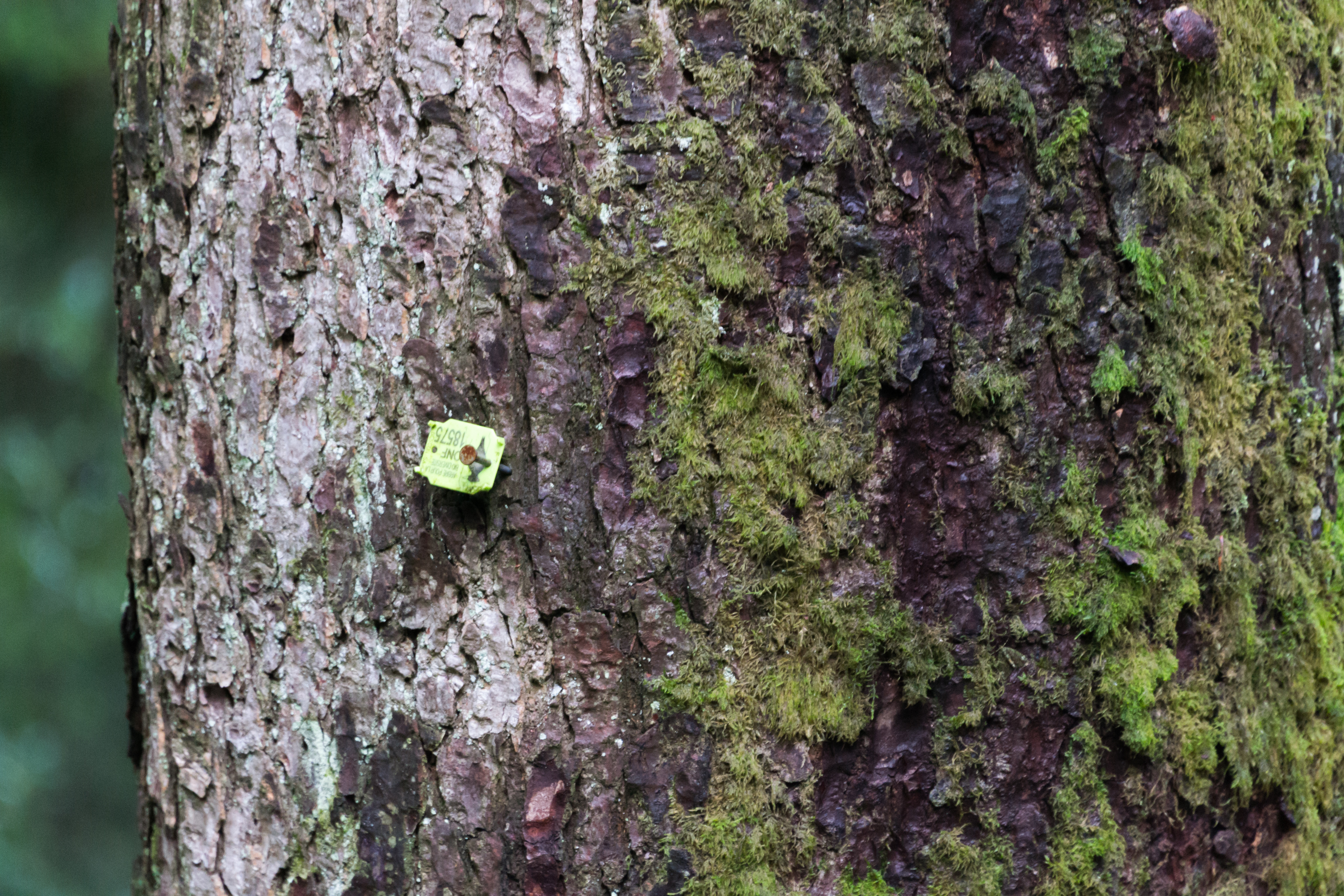 A silver fir with a “Tree for biodiversity” plaque (French “Arbre pour la biodiversité”). Such trees in France, named “arbre bio”, are now marked with a inverted chamois triangle or a red V, both painted.